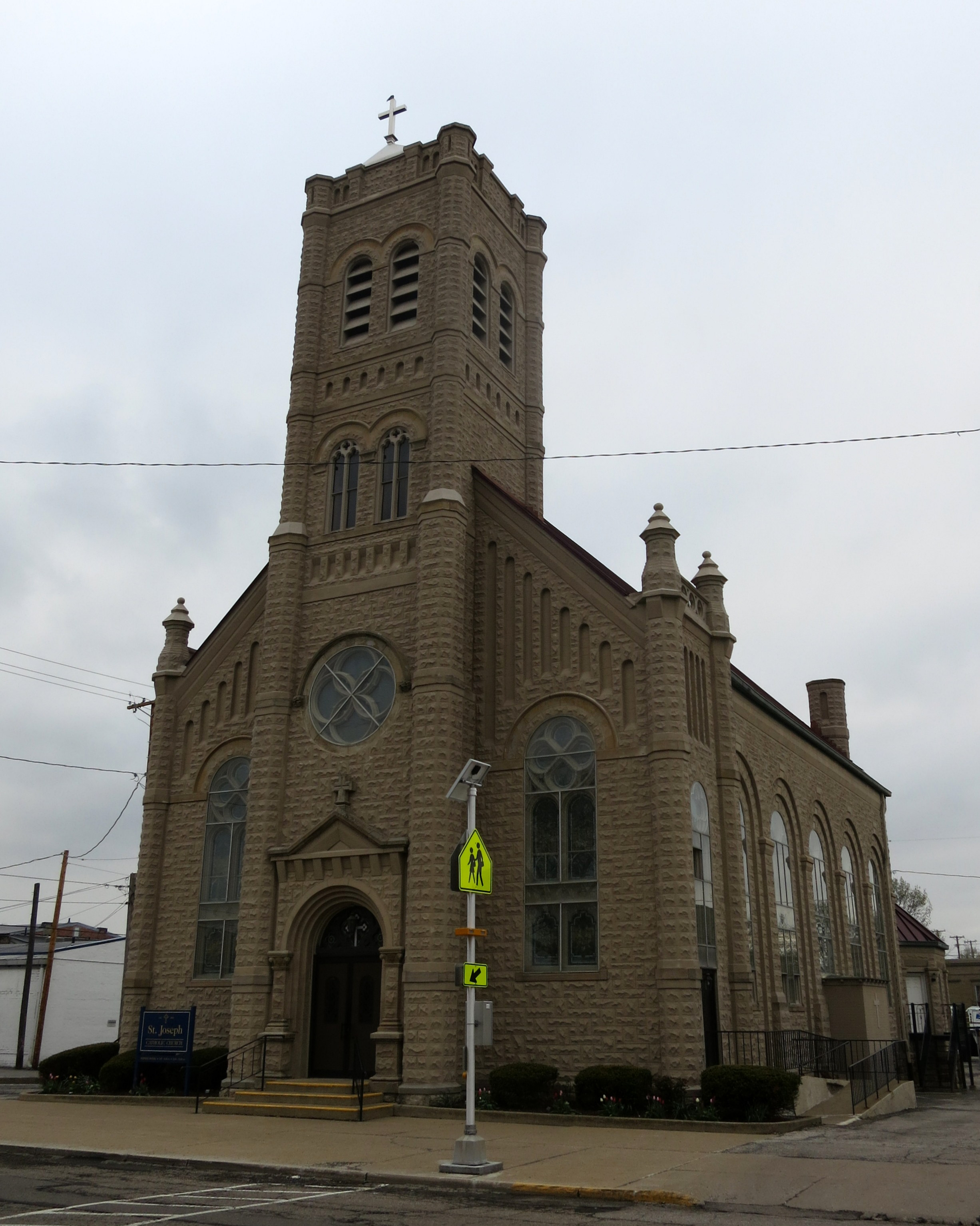 Saint Joseph Catholic Church (Crestline, Ohio) - exterior 2